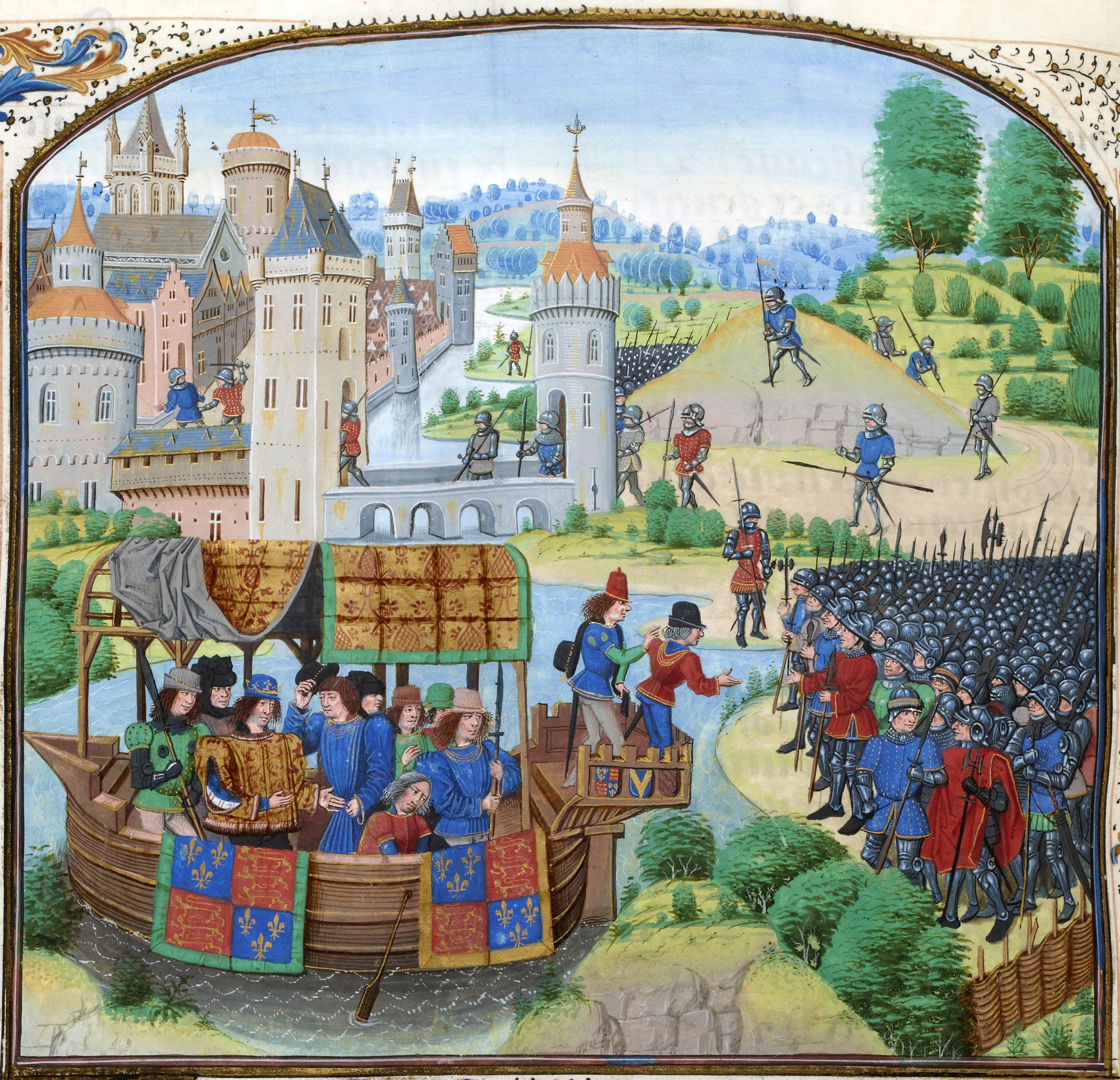 Richard II meeting with the rebels of the Peasants' Revolt of 1381.